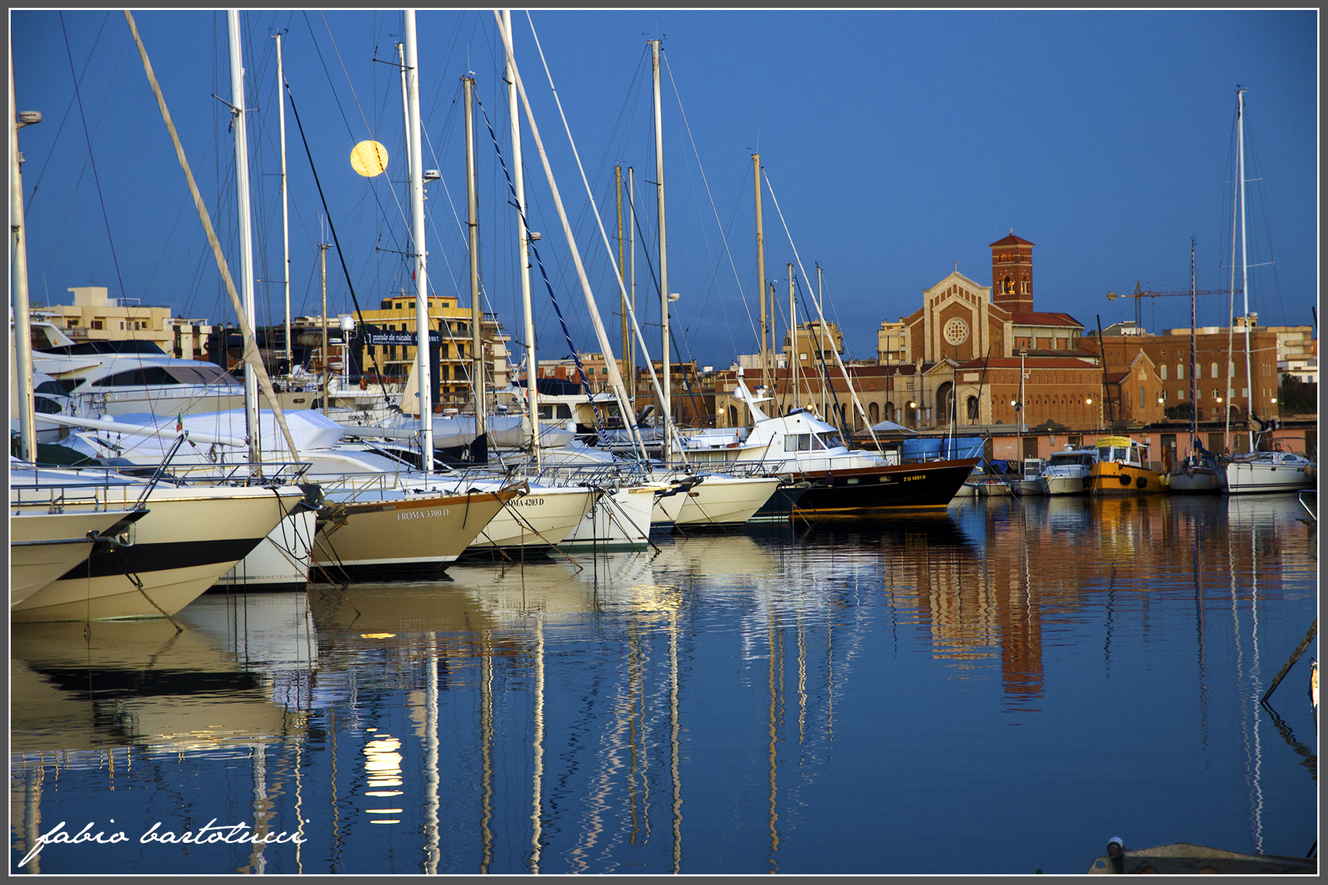 Marina di Nettuno view